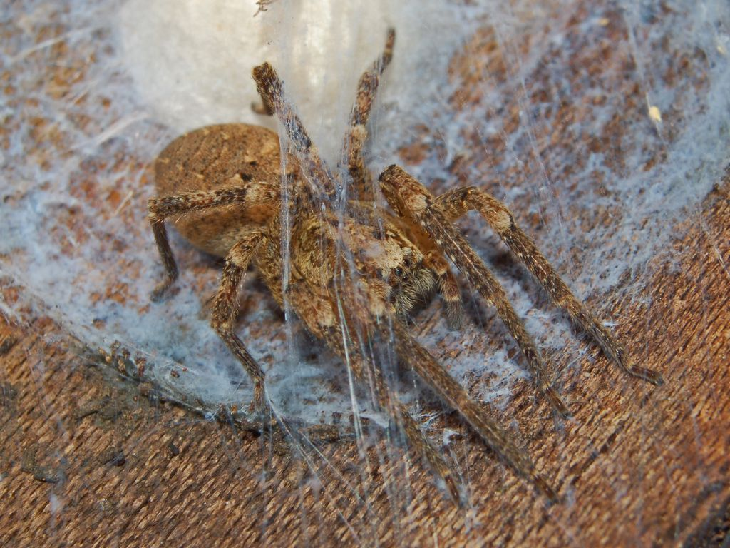 Zoropsis spinimana in Acquasanta Genova Italy